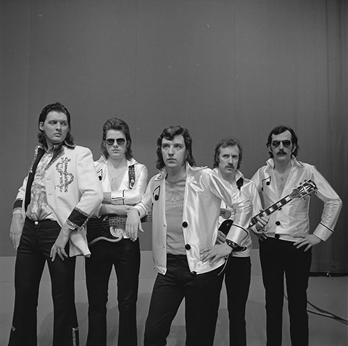 Long Tall Ernie & the Shakers in AVRO's TopPop (Dutch television show) in 1974